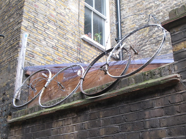 An appropriate deterrent for bicycle thieves. Guarding the premises of "bikefix" - see 1238260.